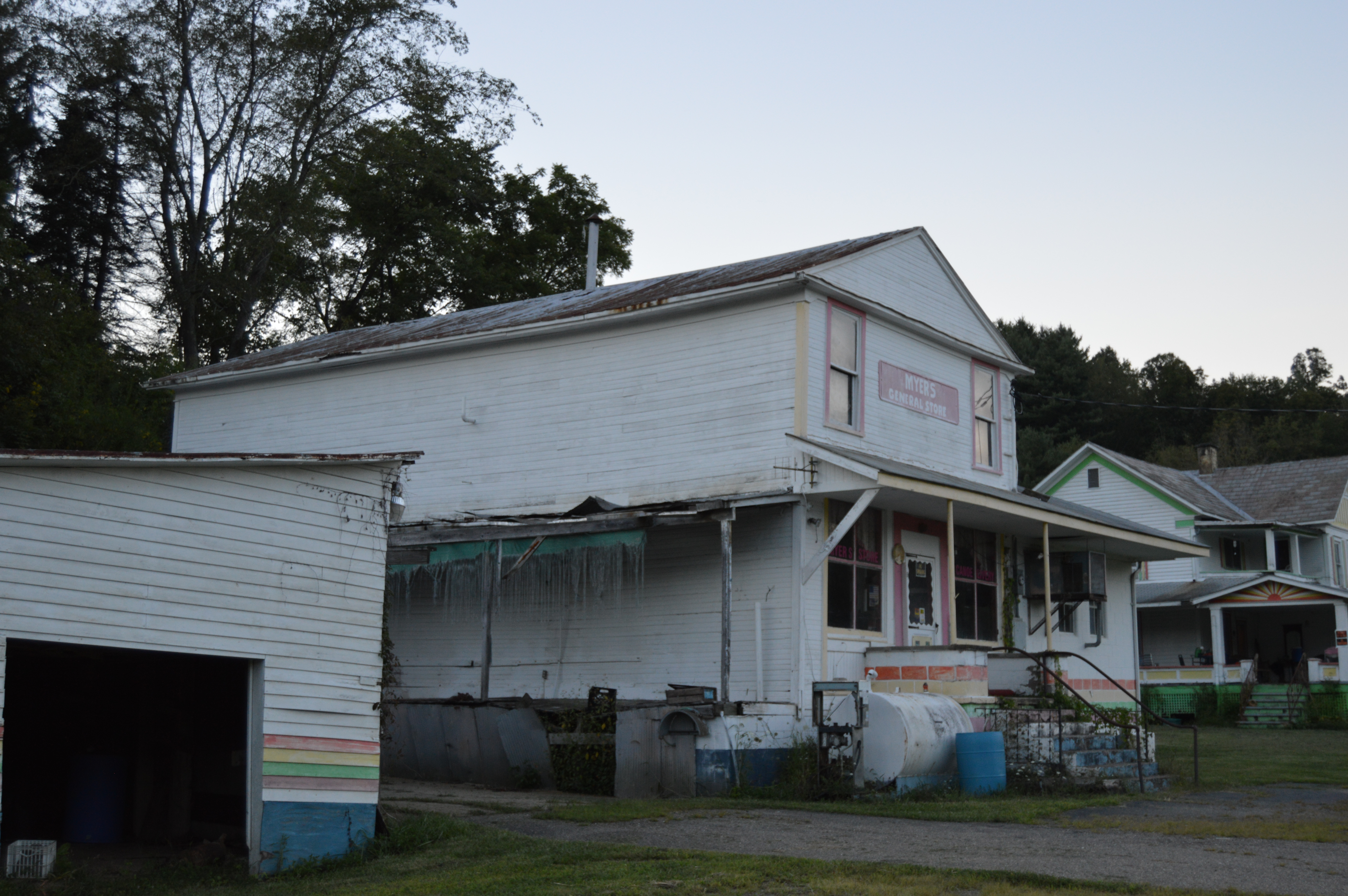 Front of the Myers General Store, located on State Route 26 in Wingett Run, Ohio, United States.